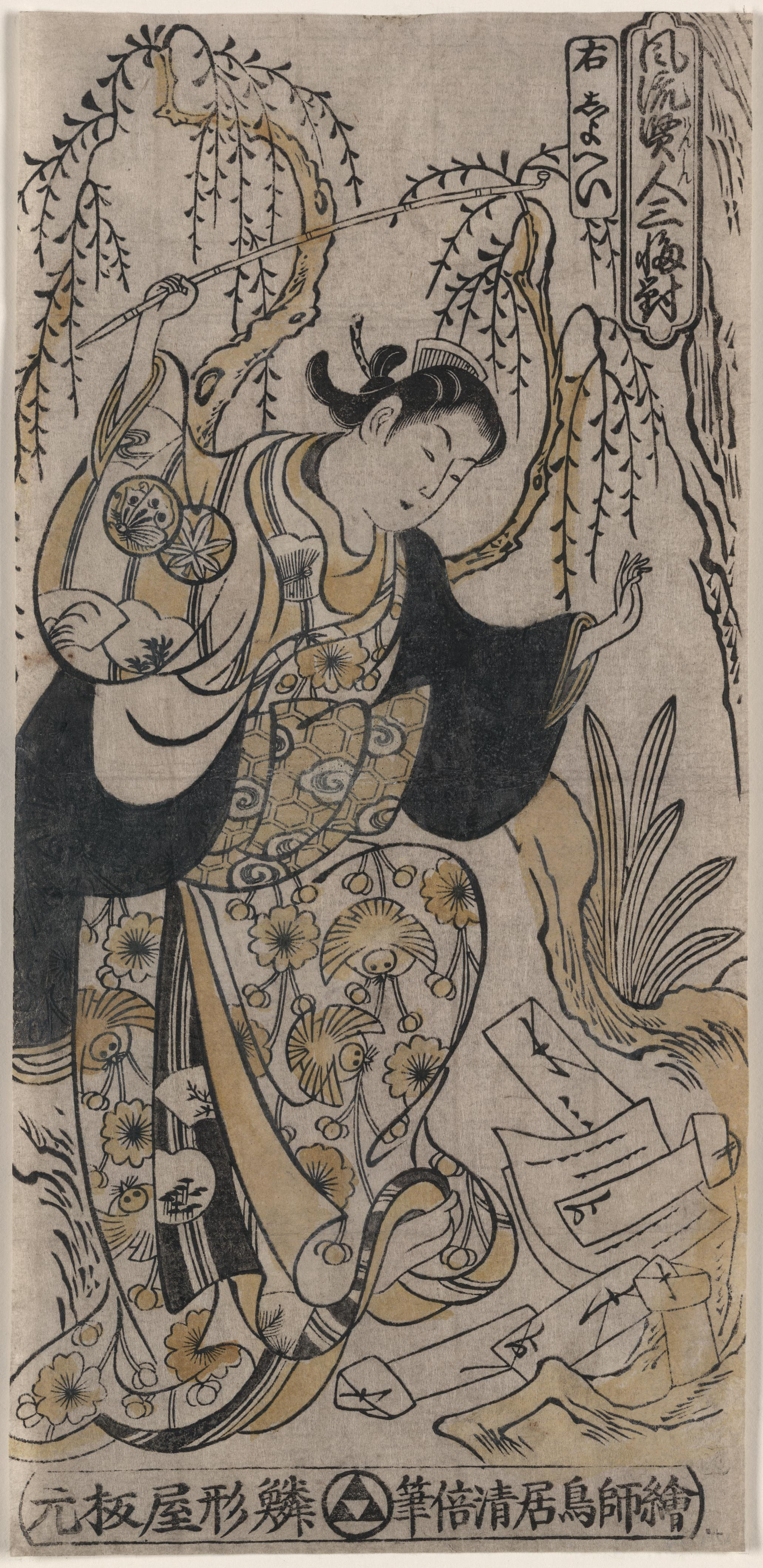 "Actor Sanjō Kantaro as a peddler of love letters". 18th century Ukiyo-e woodcut. Full-length view of the actor Sanjō Kantaro playing a woman's part. Title and other information based on entry for item in exhibition catalog. Exhibited: "The Floating world of Ukiyo-e: shadows, dreams and substances," organized by the Library of Congress, 2001.